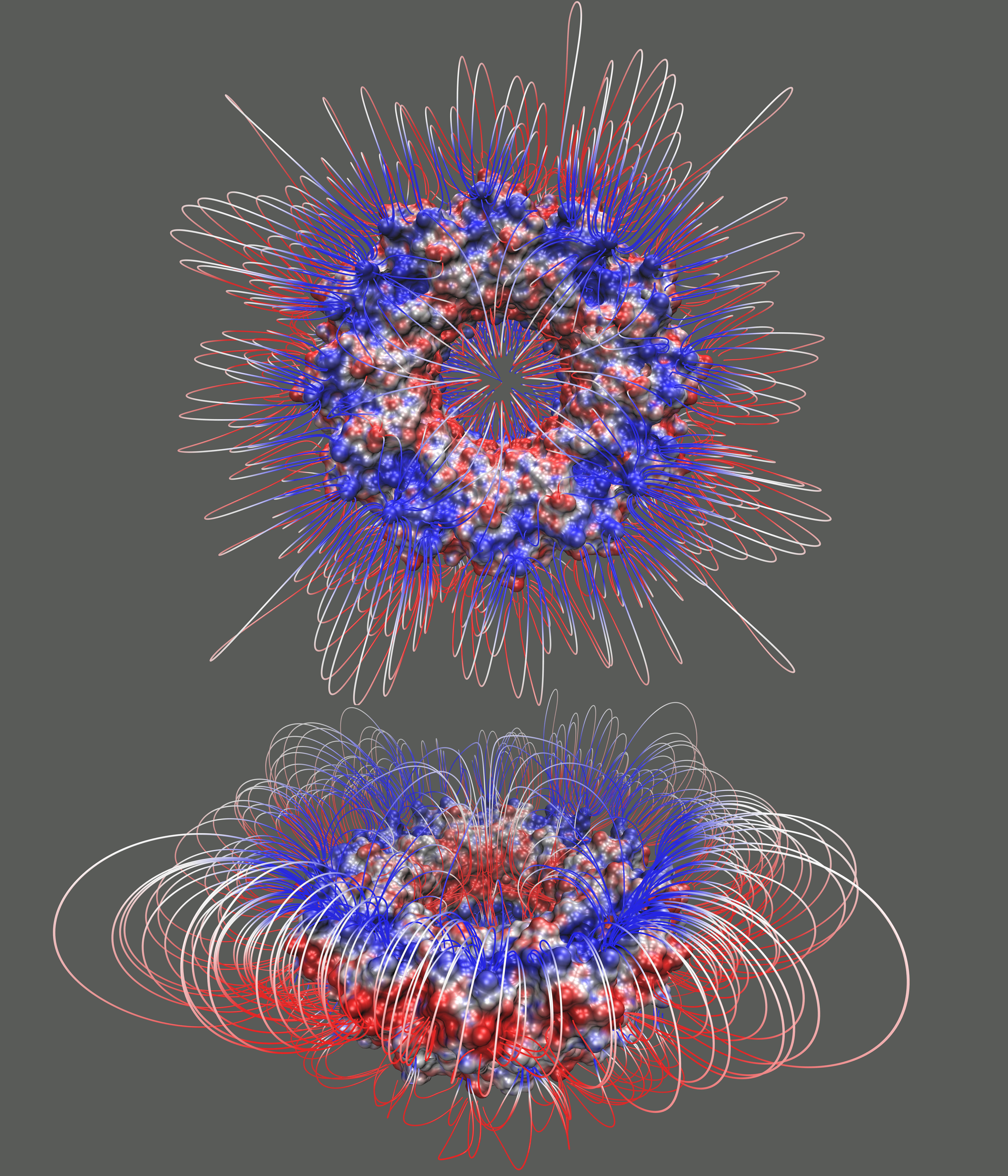 The electrostatic field lines of TRAP---trp RNA binding attenuation protein (PDB ID: 2EXS). The blue and red colors represent the positive and negative polarities, respectively. The field lines indicate the directions of the electrostatic forces surrounding the protein. This potential is calculated with modified DelPhi program utilizing Gaussian-based smooth dielectric function. The visualization is done with VMD.